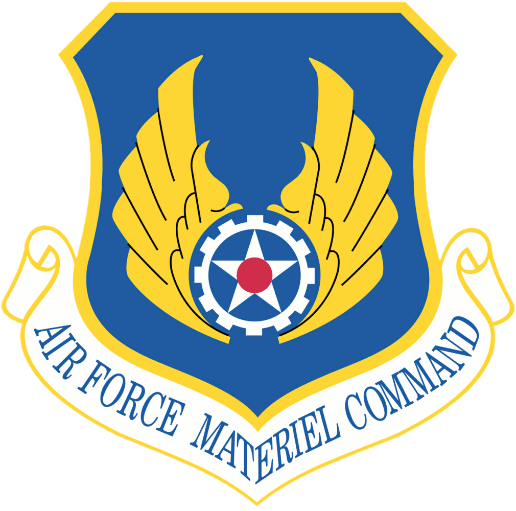 Emblem of Air Force Materiel Command, a Major Command of the United States Air Force. Includes old Army Air Corps roundel.